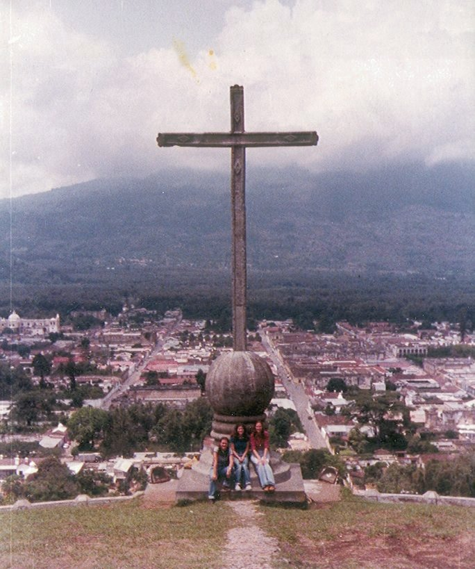 Stone cross on hill above town and view of Antigua Guatemala. Infrogmation photo, 1979